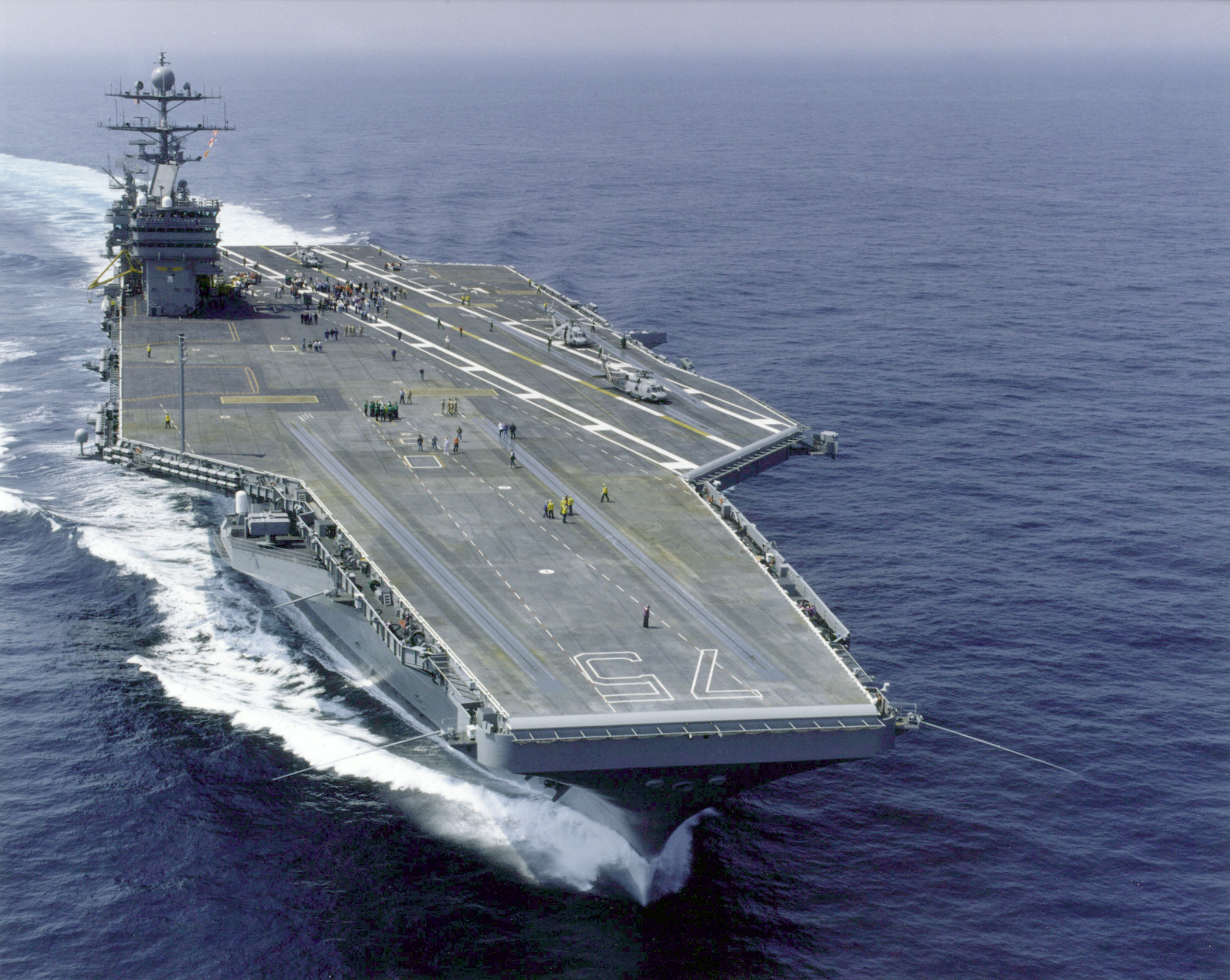 The Navy's newest aircraft carrier USS Harry S. Truman CVN 75 sails off the coast of Virginia during initial shipyard sea trials. The USS Harry S. Truman will be commissioned Saturday, July 25, 1998.